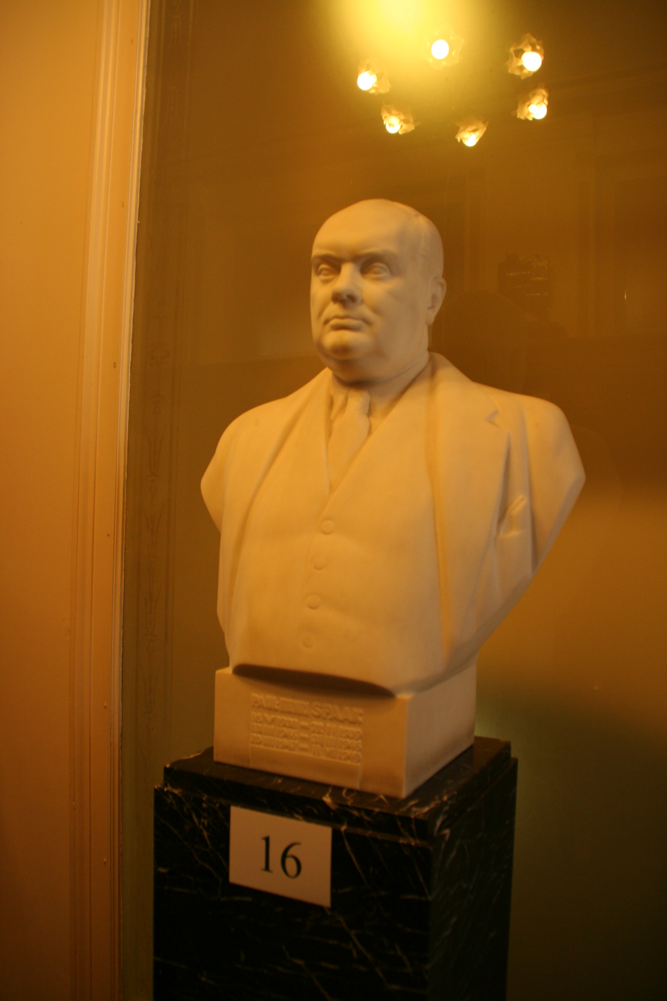 Bust of Paul-Henri Spaak in the Palais de la Nation in Brussels, Belgium.